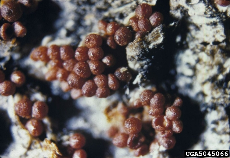 Nectria coccinea fruiting bodies